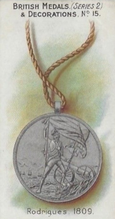 Medal awarded to Honourable East India Company native soldiers for capture of French islands in Indian Ocean in 1809, depicted on Taddy cigarette card